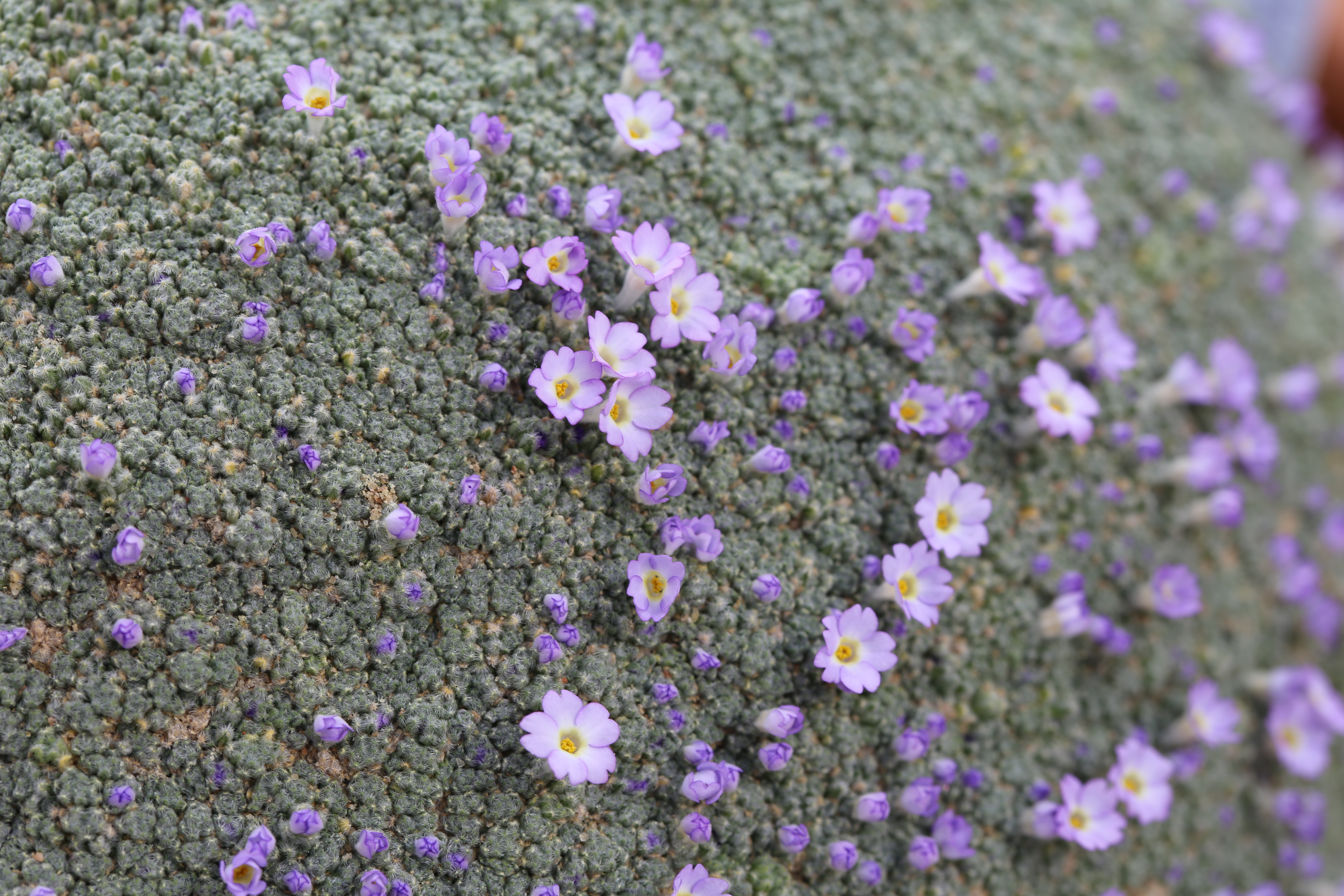 Dionysia esfandiarii at Gothenburg Botanical Garden in 2015. Plant id: 1998-2593 s W -- Lidén (SLIZE 259)